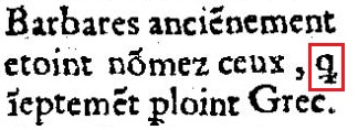 Extract of page 9 of Joachim du Bellay's 1549 work La Deffence, et illustration de la langue francoyse. The letter ꝗ has a red box around it. The text of the extract is: Barbares anciẽnement etoint nõmez ceux, ꝗ ĩeptemẽt ꝑloint Grec.